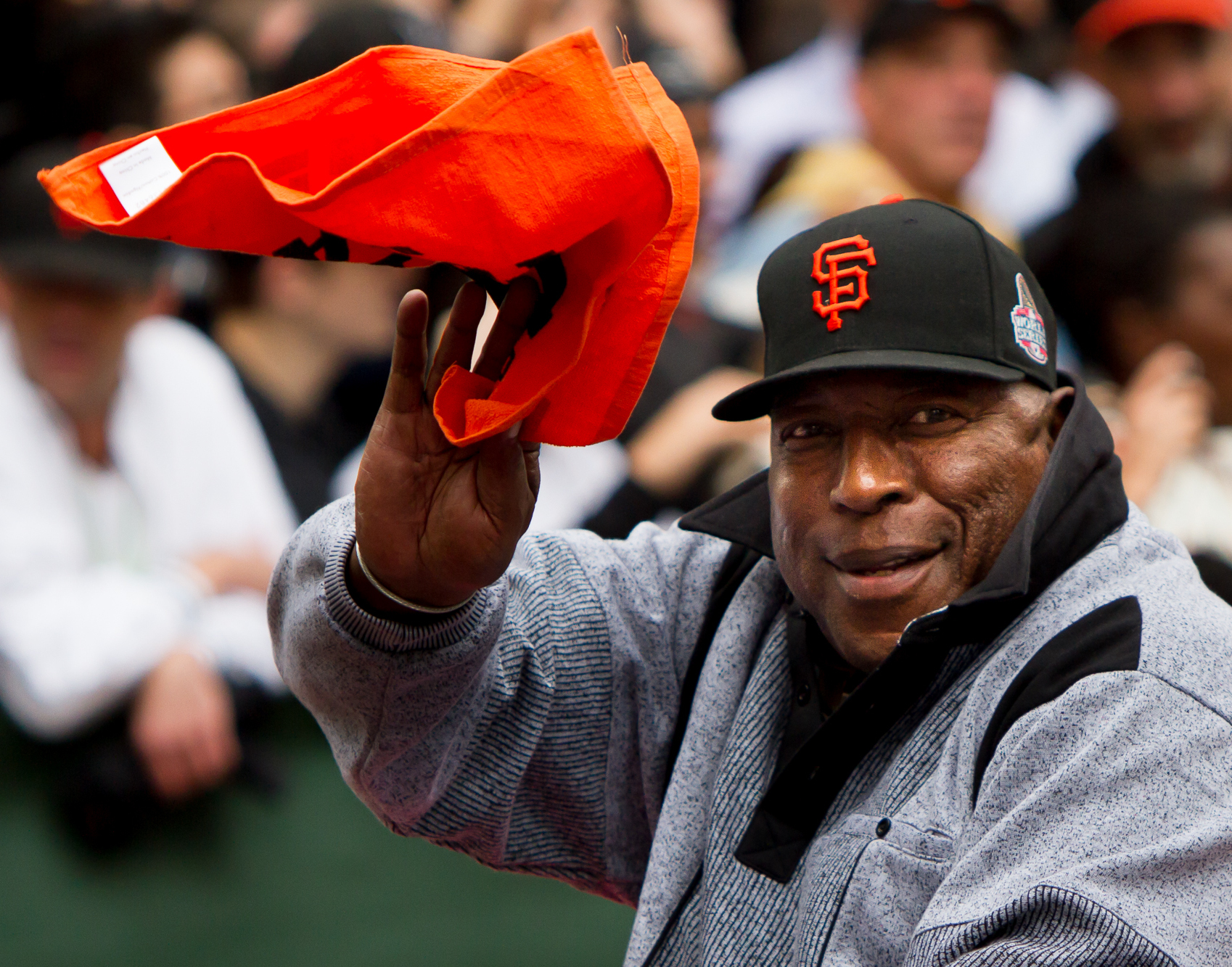 Stretch 2012 World Series Champion Parade